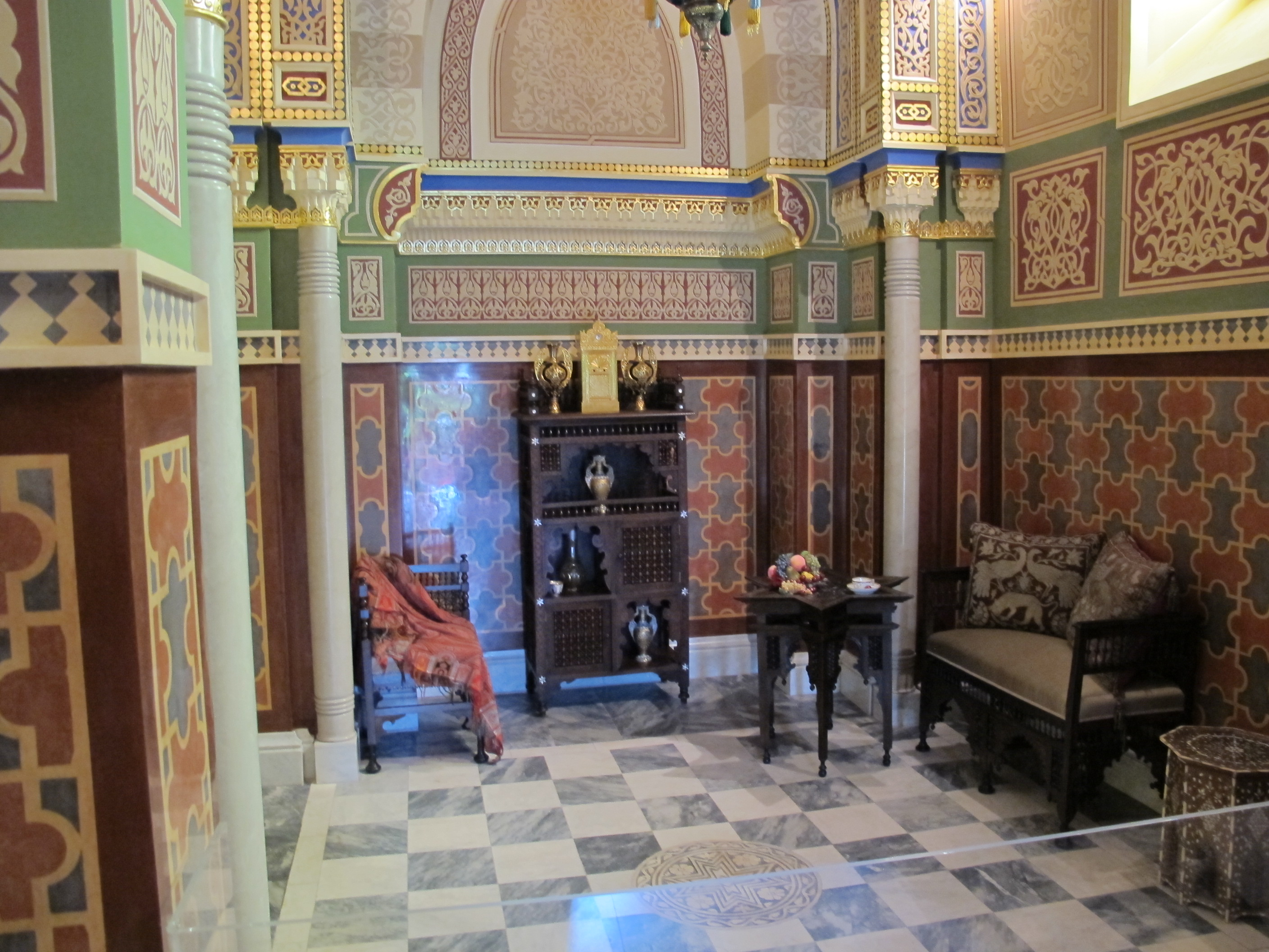 Turkish Bath, interior